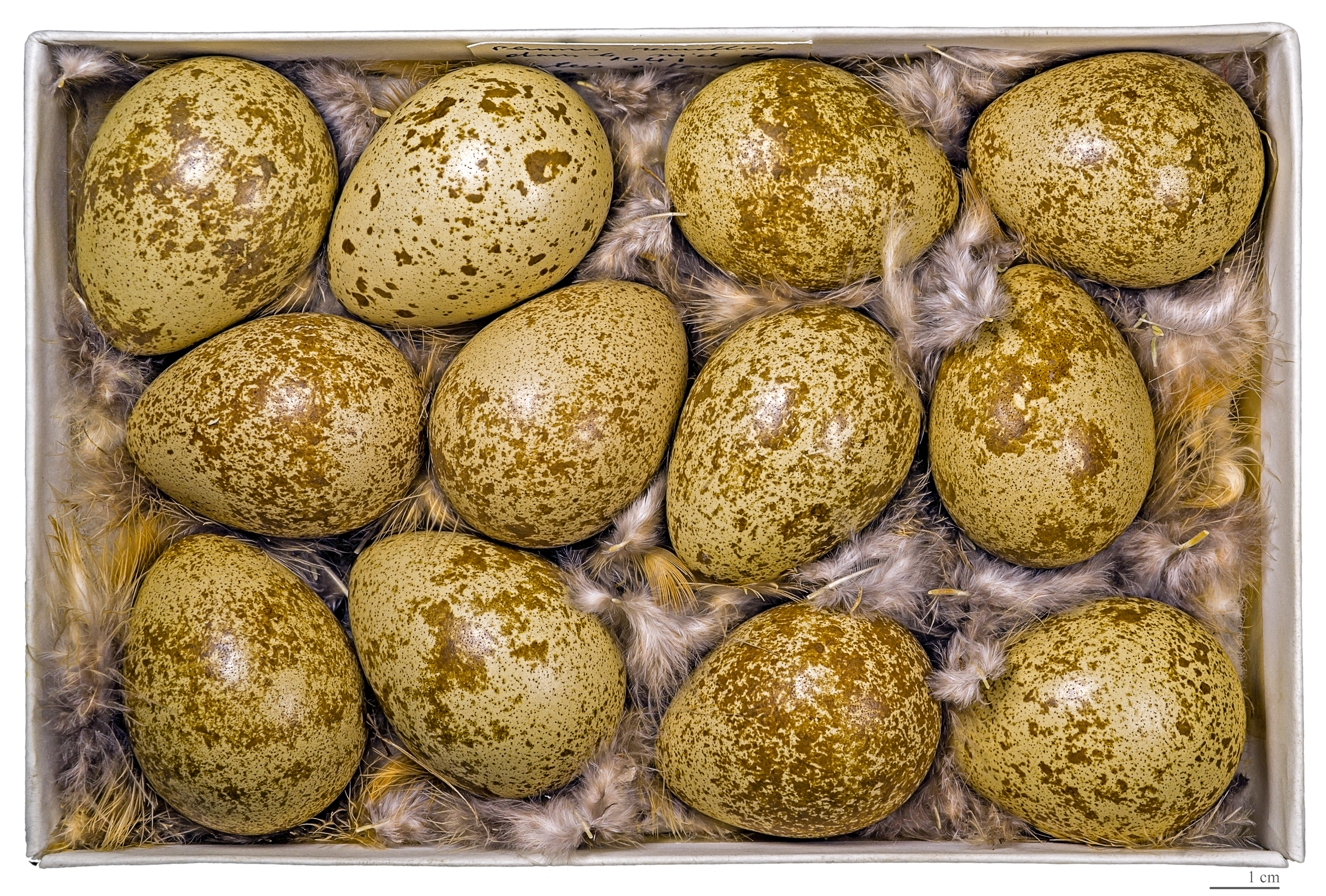 Egg of Red-legged Partridge. Collection of Jacques Perrin de Brichambaut. Locality : Montastruc-la-Conseillère, Haute-Garonne, France.